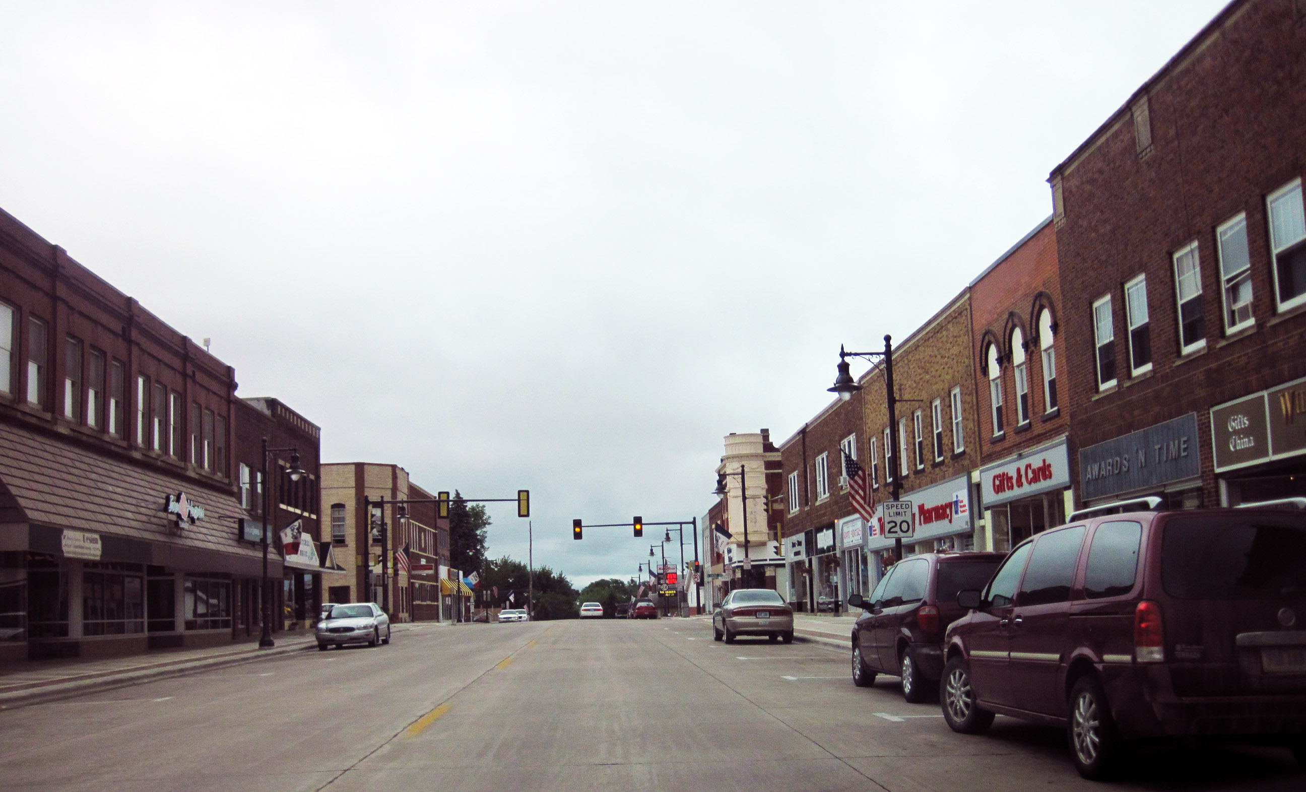 New Hampton